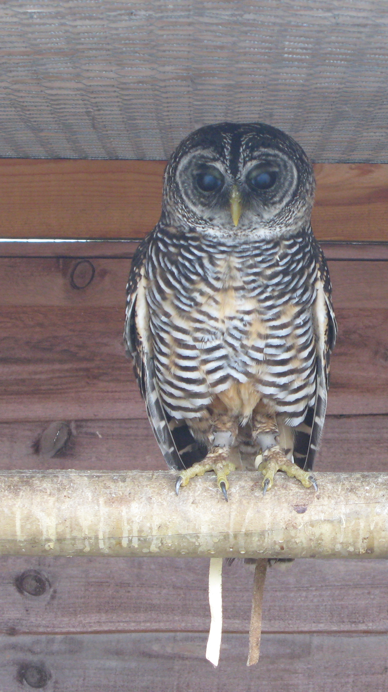 Rufous-legged owl (Strix rufipes)